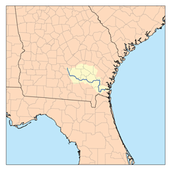 This is a map of the Satilla river watershed. I, Karl Musser, created it based on USGS data.